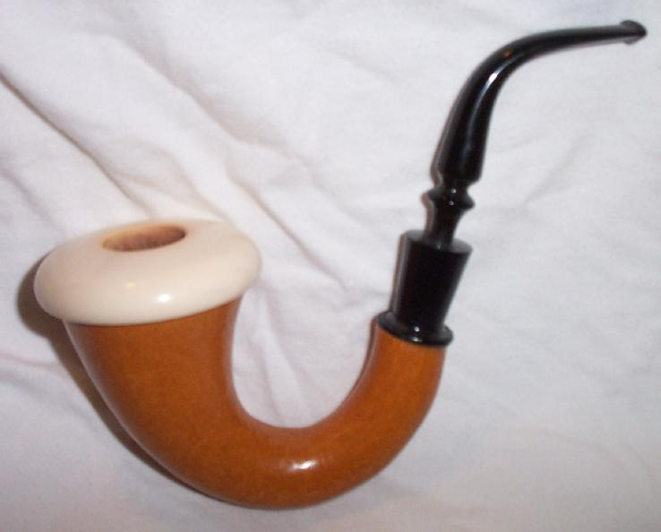 A picture of my calabash pipe.